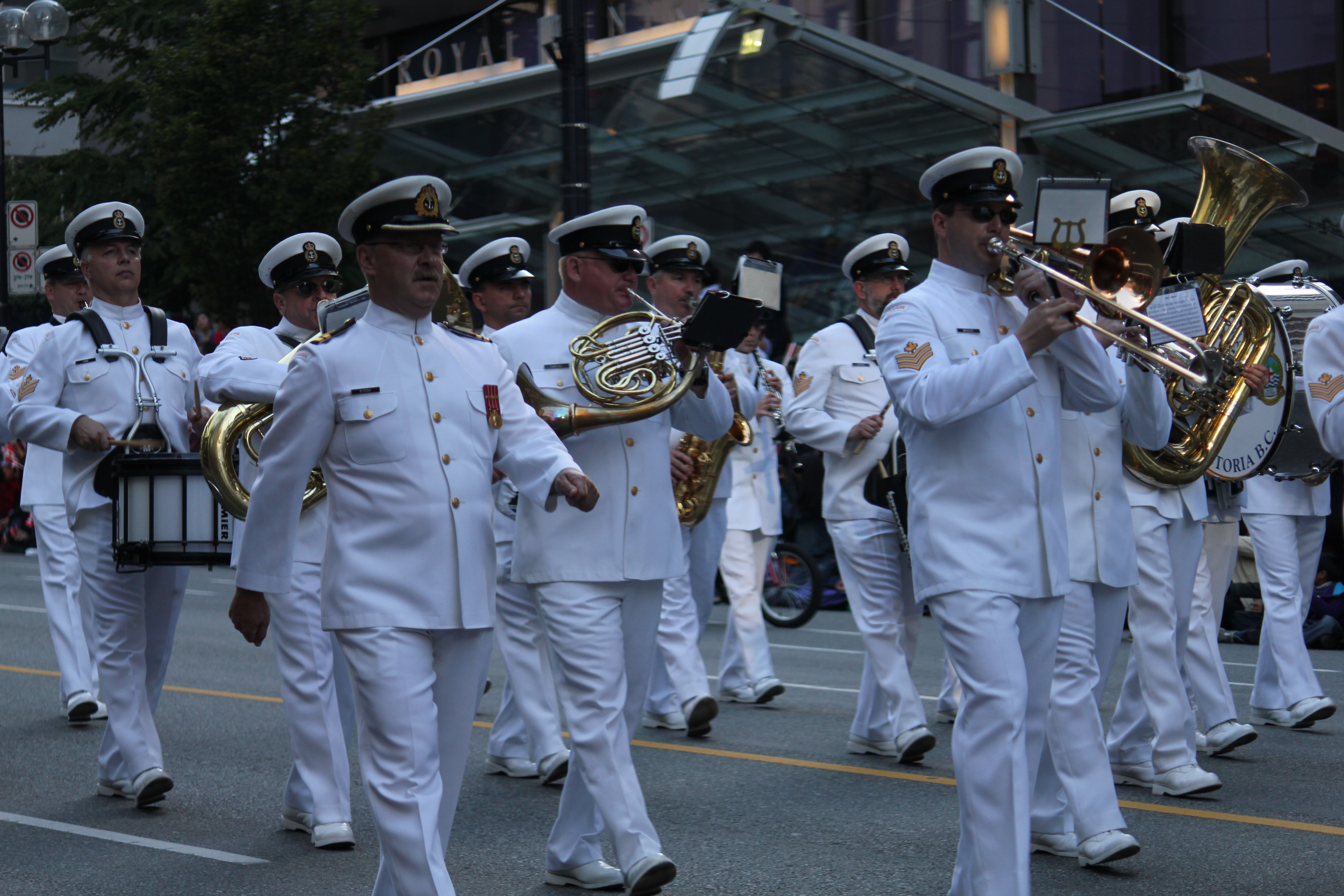 Canada Day Parade 2011, Downtown